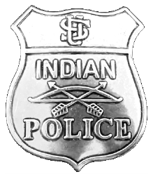 US Indian Police badge, type worn by Indian police who arrested Sitting Bull on Standing Rock in 1890.